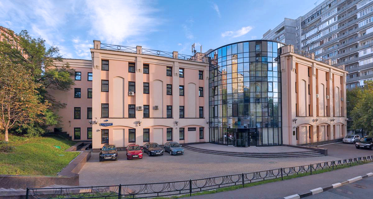 RSCC (ФГУП «Космическая связь»), Taganka, Moscow